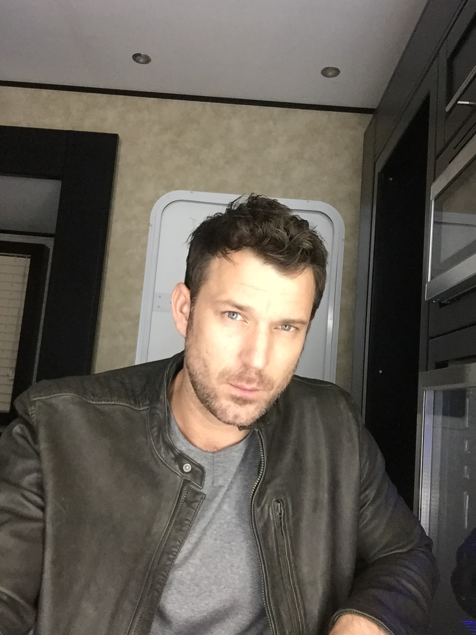 Wil Traval